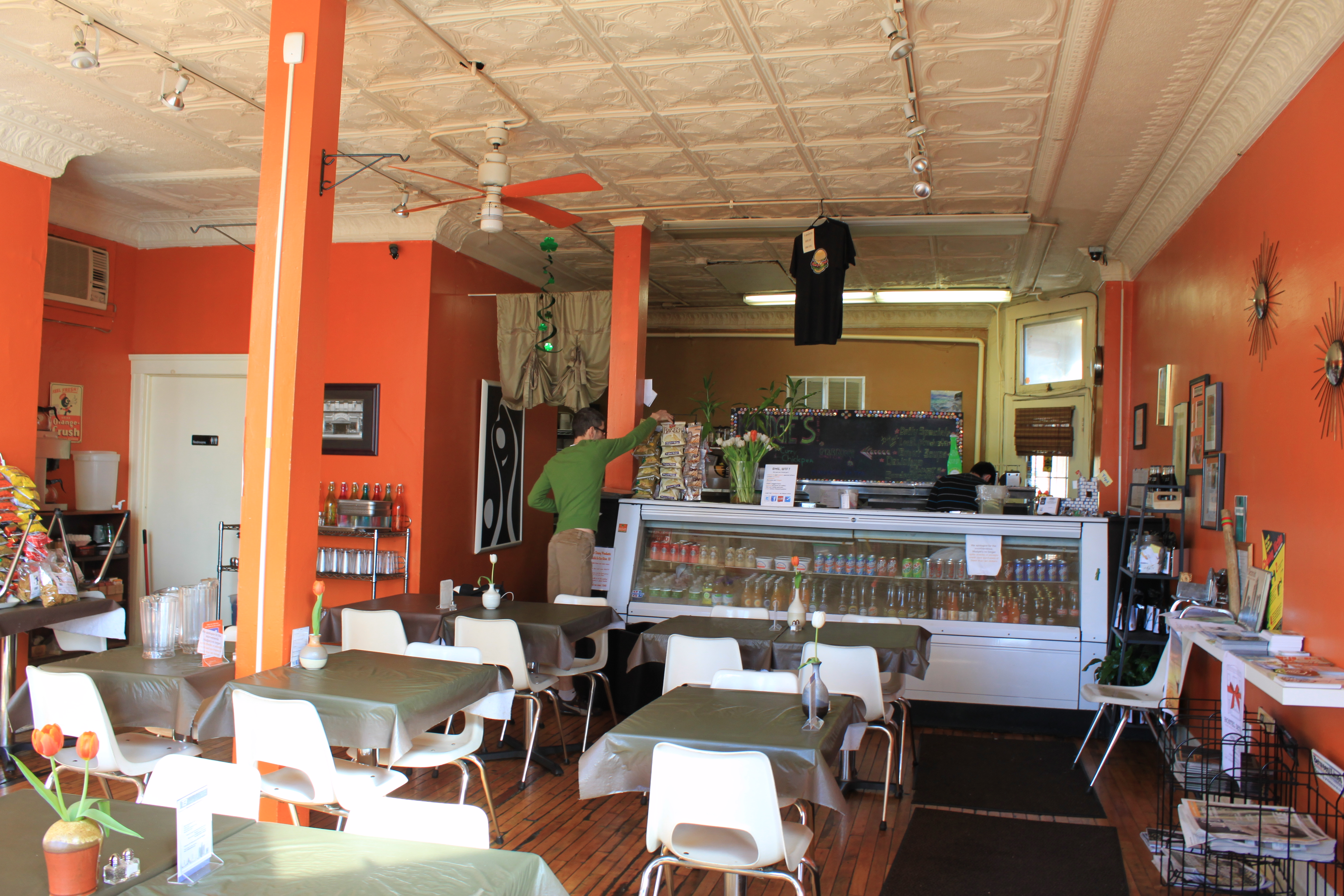 Mudgie's Deli interior, 1300 Porter Street, Detroit, Michigan